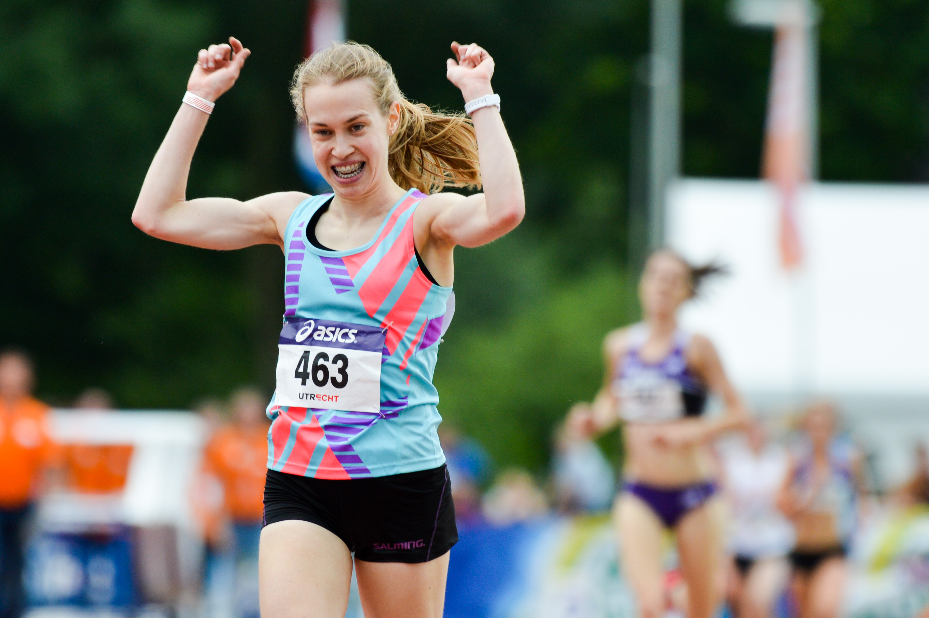 Irene van Lieshout wins the 5000 m at the 2017 Dutch Athletics Championships